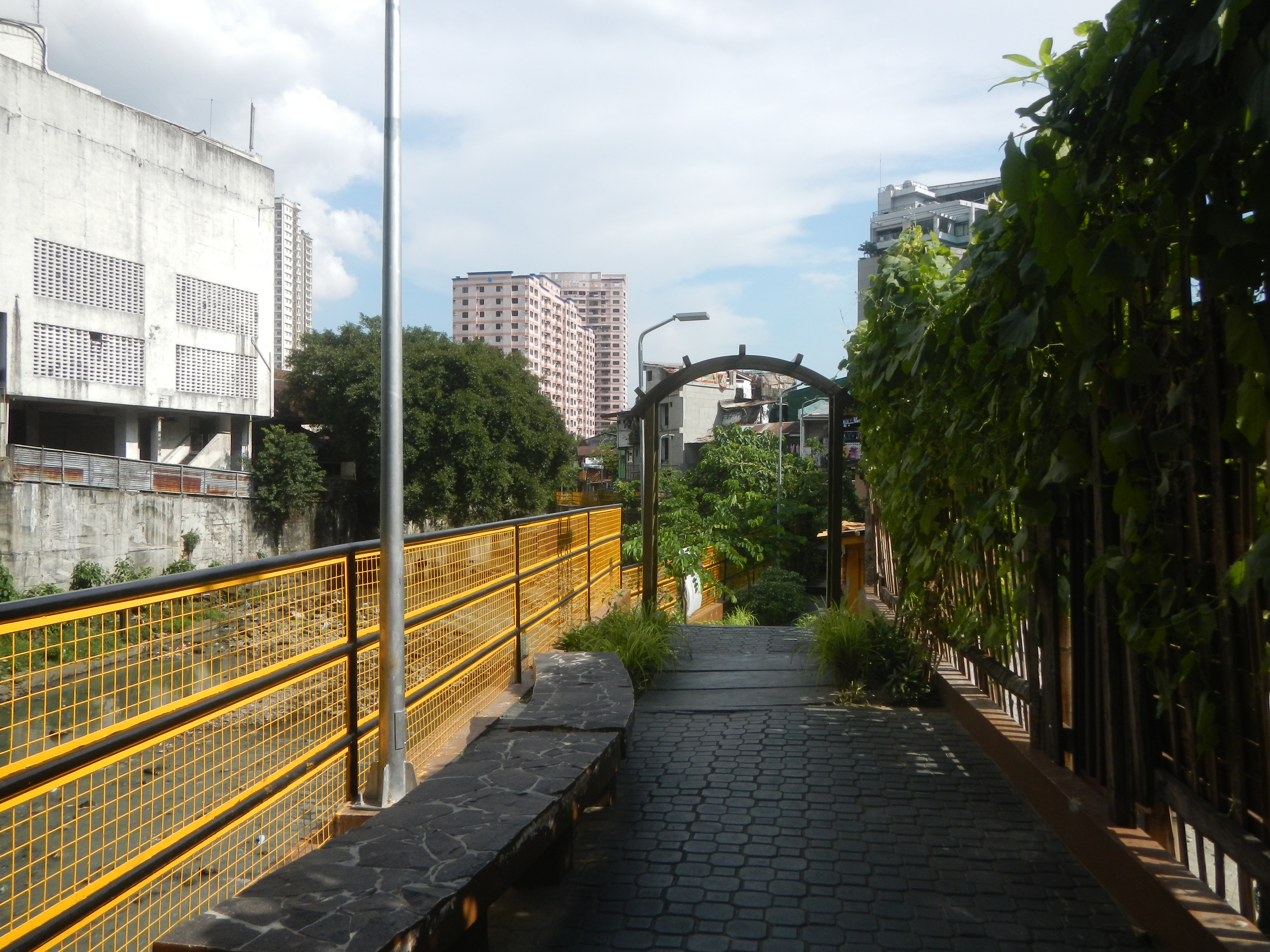 Ermitaño Linear Park (San Juan City, Metro Manila) upon Aurora Boulevard and N. Domingo Street in the List of barangays of Metro Manila, Barangays Salapan beside Ermitaño, San Juan, Metro Manila by the Quezon City Boundary Monument in San Juan City in the List of barangays of Metro Manila Legislative districts of Quezon City Districts 6, Barangays of Quezon City, Barangays Mariana and Valencia, Quezon City connected by the Ermitaño Bridge and Ermitaño Bridge I Station 6+(-23) upon San Juan River (Metro Manila) by the Ermitaño Creek (Note: Judge Florentino Floro, the owner, to repeat, Donor Florentino Floro of all these photos hereby donate gratuitously, freely and unconditionally all these photos to and for Wikimedia Commons, exclusively, for public use of the public domain, and again without any condition whatsoever).